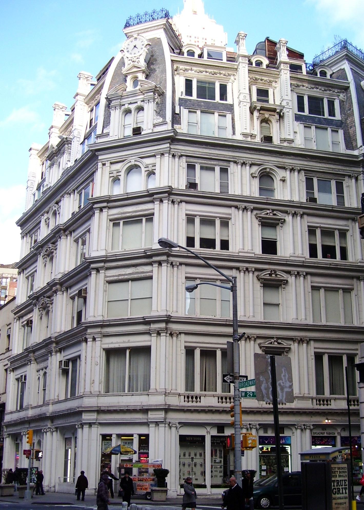 Gilsey House, at 29th Street and Broadway, as seen from down Broadway